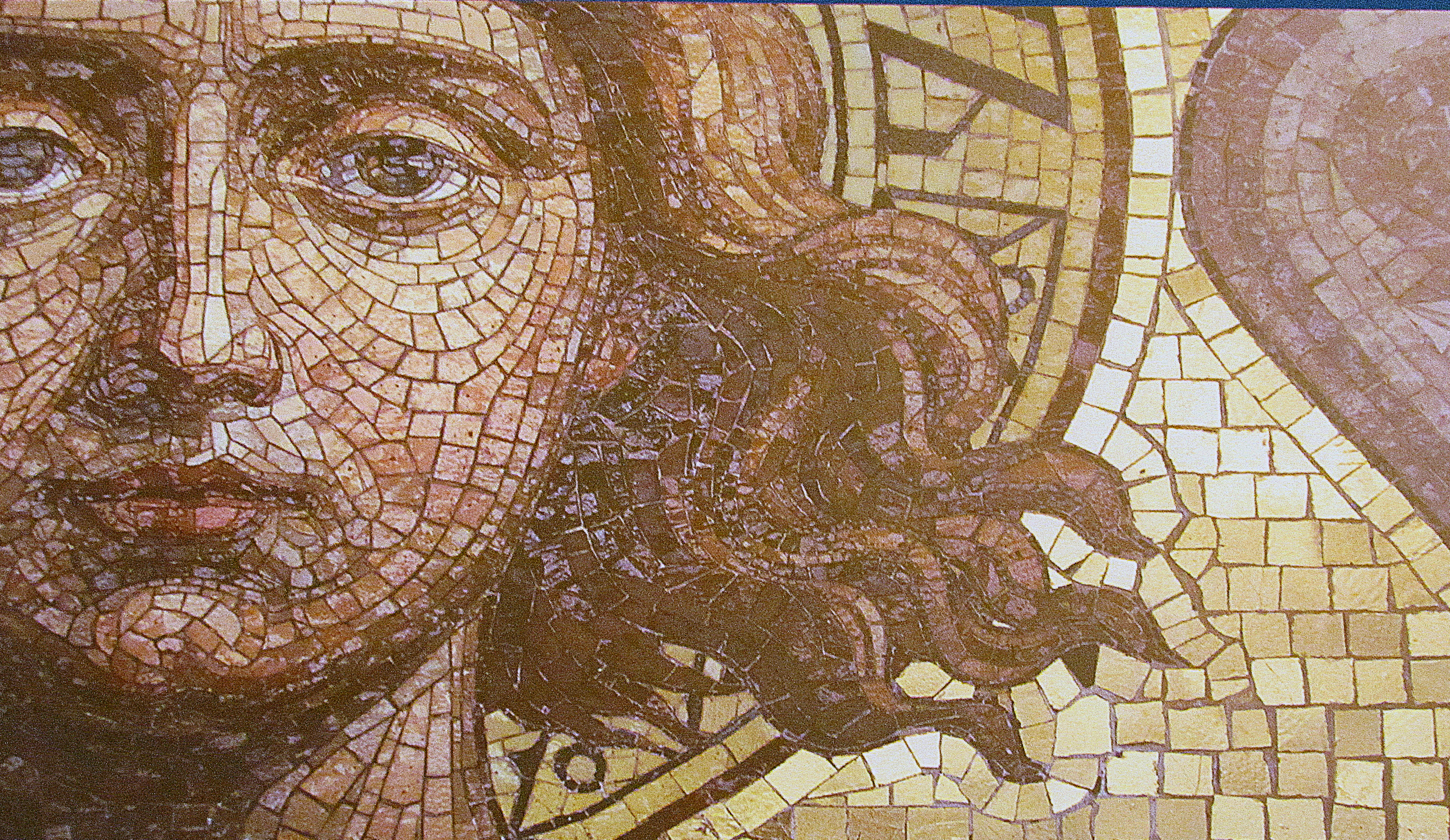 Mosaic St Michael (detail), Saint Spyridon Serbian orthodox Church, Trieste